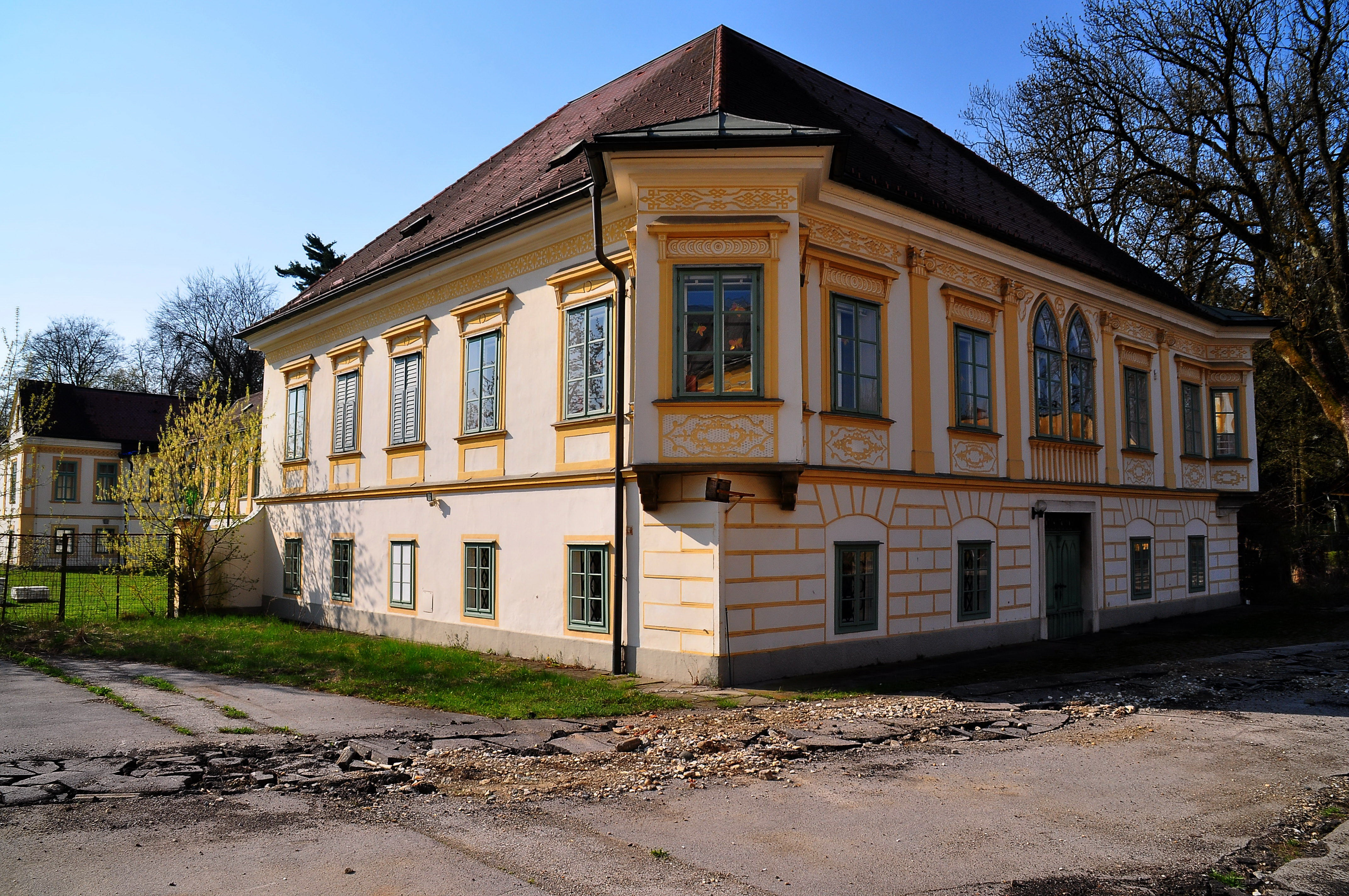 Mansion from the year 1861 on the Fischlstrasse #34, 10th district "Sankt Peter" of the Carinthian capital Klagenfurt, Carinthia, Austria, EU